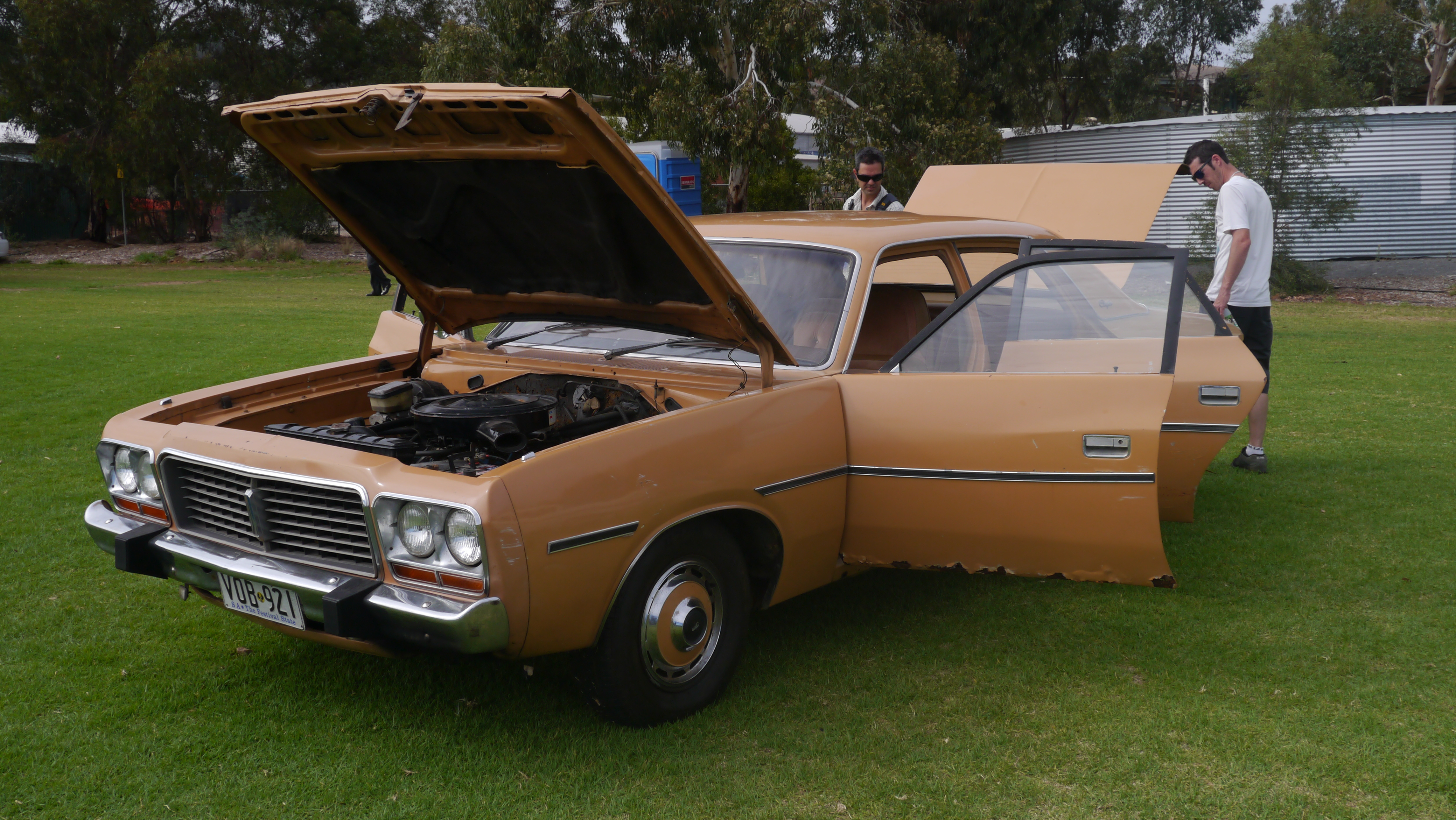 These were built by then Sigma Motor Group of South Africa. The original owner only had the car for 4 months before he moved to Australia from South Africa and took the car with him.